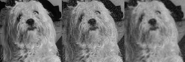 Left part of the dog picture is original pic. In the middle you can see applied "white noise" on the picture. In the right part is used Wiener filtr on the dog image.